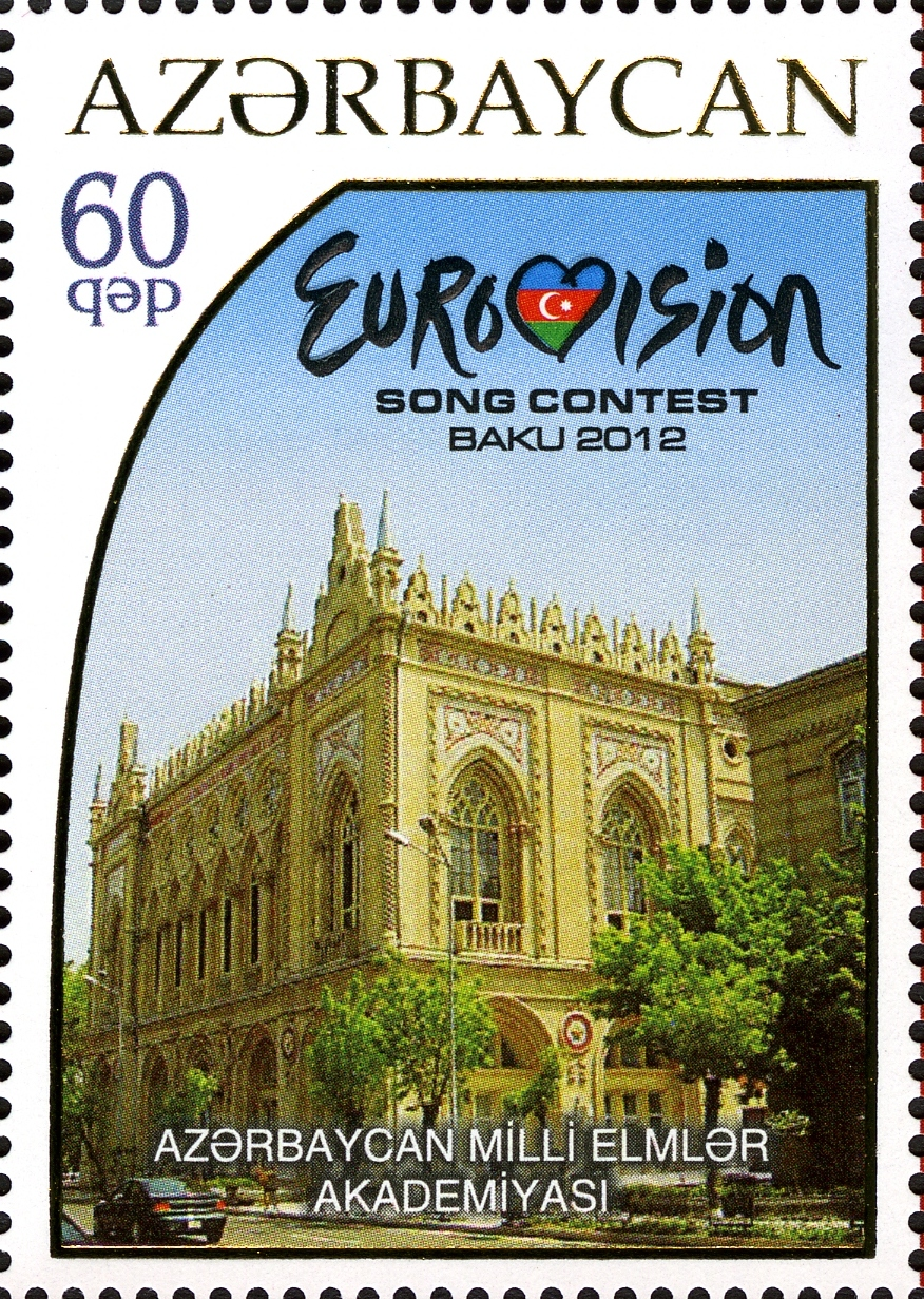 "Eurovision - 2012" song contest